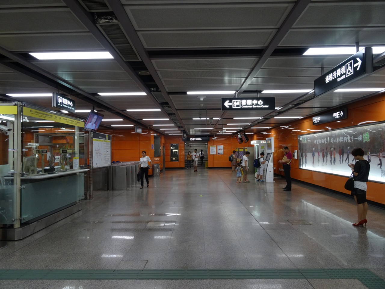 江南西站嘅南站廳